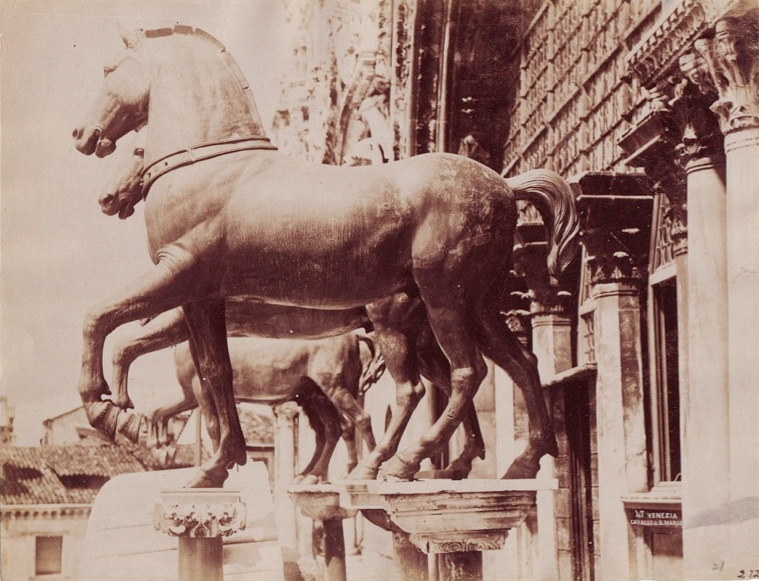 Carlo Naya (1822-1881) - "Venice. Sain Mark's horses". Catalogue # 47. Uncolorised original by Naya. The same image, colorised. The horses, today.